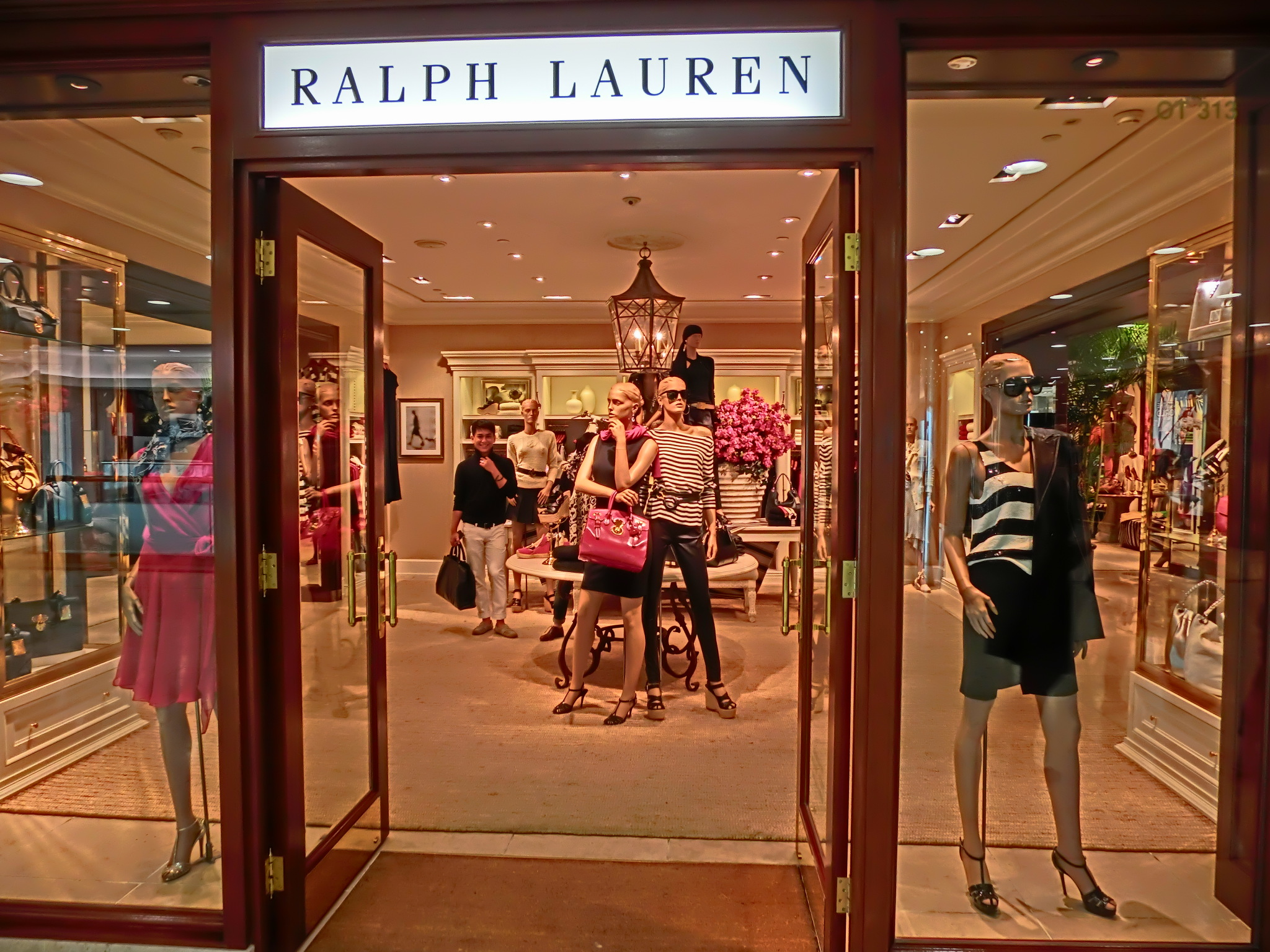 九龍尖沙咀海港城, Harbour City, Tsim Sha Tsui, Hong Kong